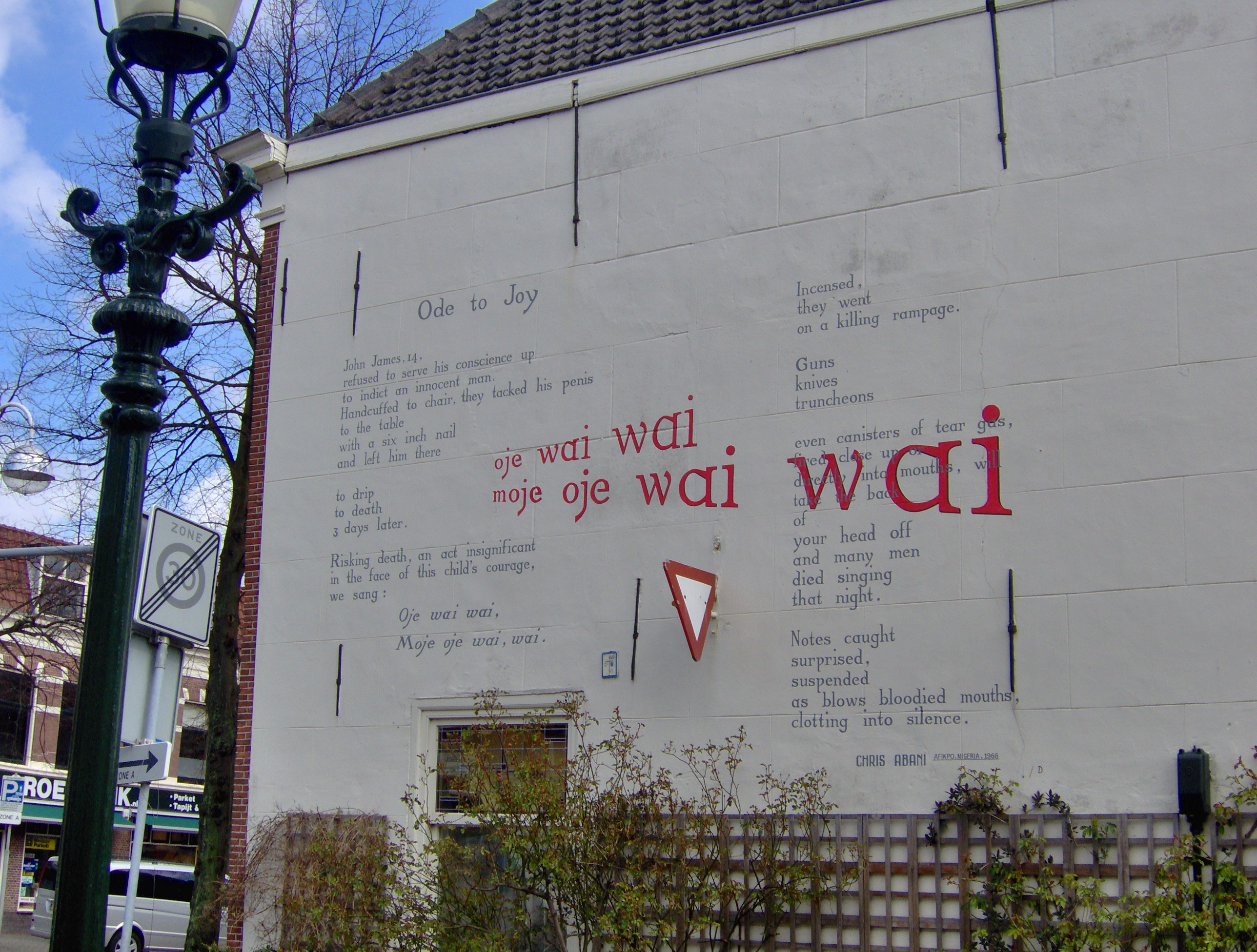 Chris Abani's poem Ode to Joy on a wall of the building at Levendaal 81, at the corner with the Geregracht, in the city of Leiden, The Netherlands